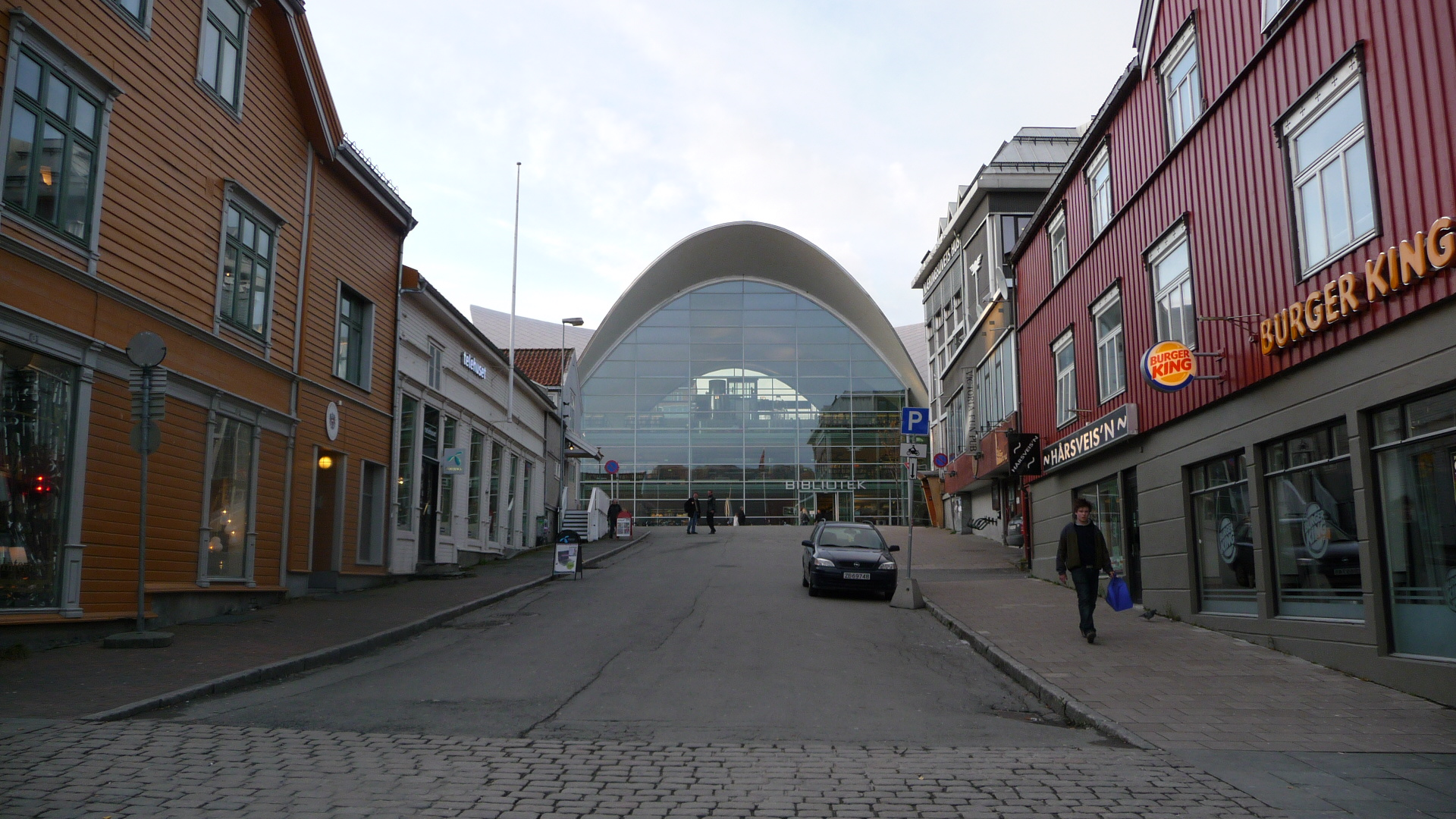 Tromso's Library